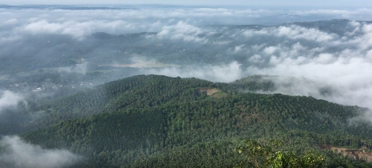 A hill in Mankada